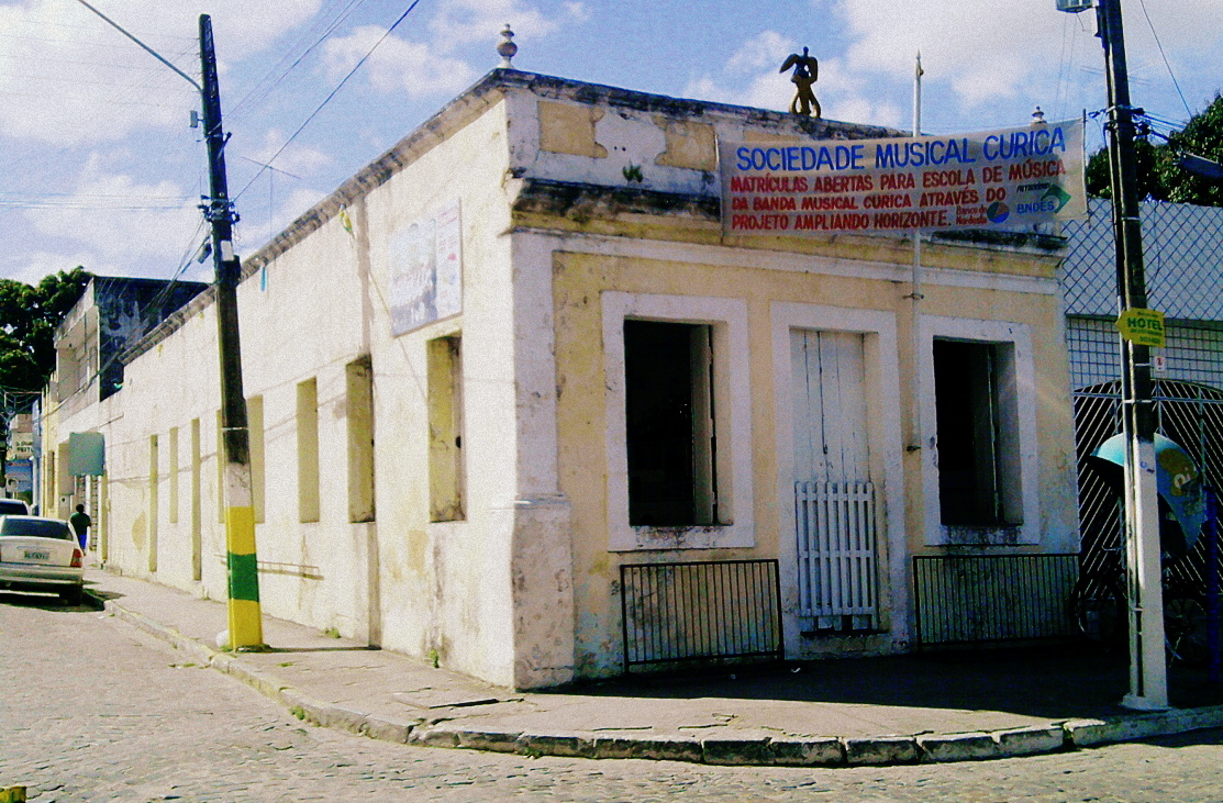 Goiana Downtown